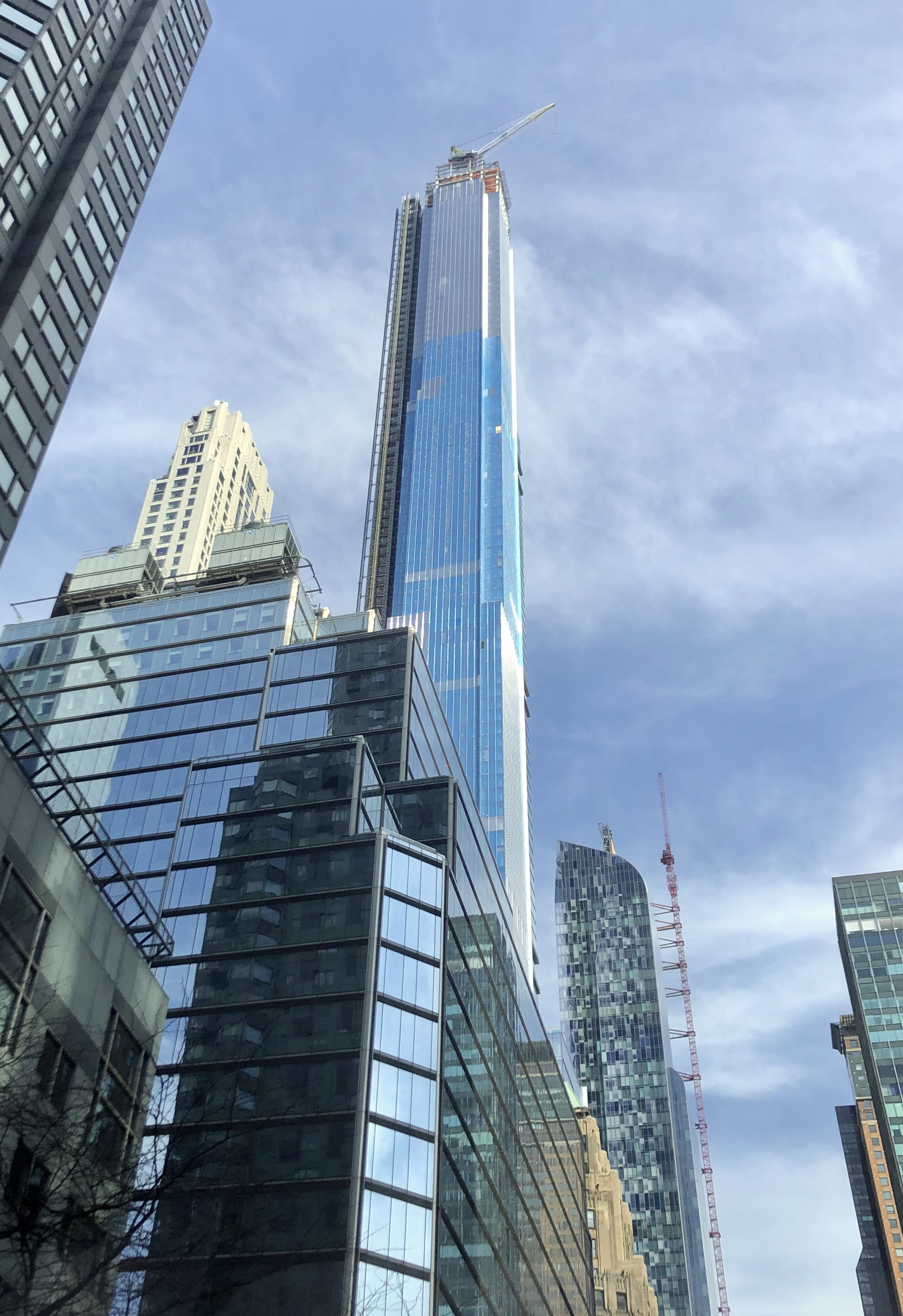 View of Central Park Tower from 57th Street on April 25, 2020. Photo by Chris6d